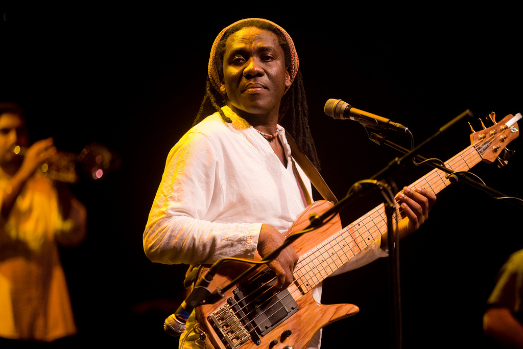 Jazz bassist Richard Bona in a 2010 performance